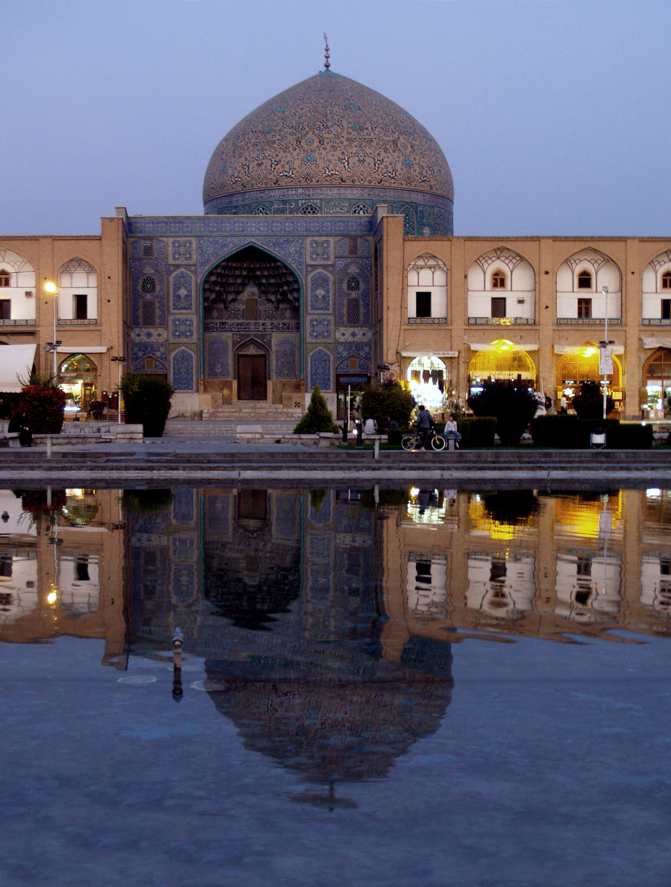 evening view from the imam khomeini square. sheikh lotfollah (or lotf allah) mosque, isfahan, iran, 1602-1619. architect: muhammad reza ibn ustad hosein banna isfahani. the tiles on the entrance iwan are a 20th century reconstruction but the dome is original, inside and out.